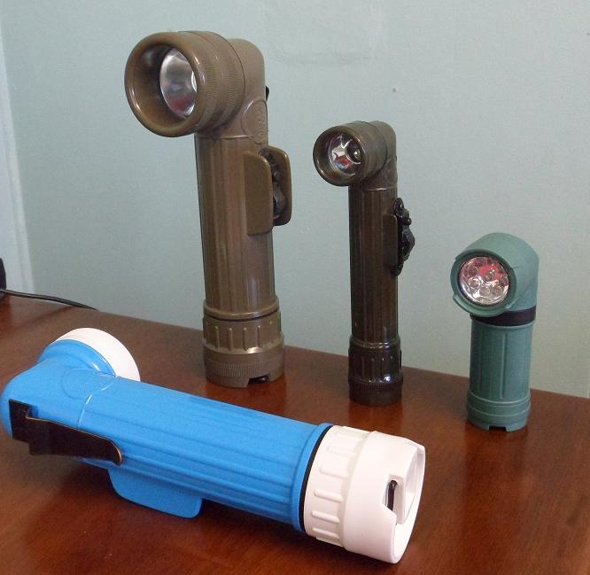 US Army Fulton MX-991/U Flashlight, with a telecommunications MX-991/U flashlight, a reproduction MX-991/U flashlight, and a standard angle-head flashlight.